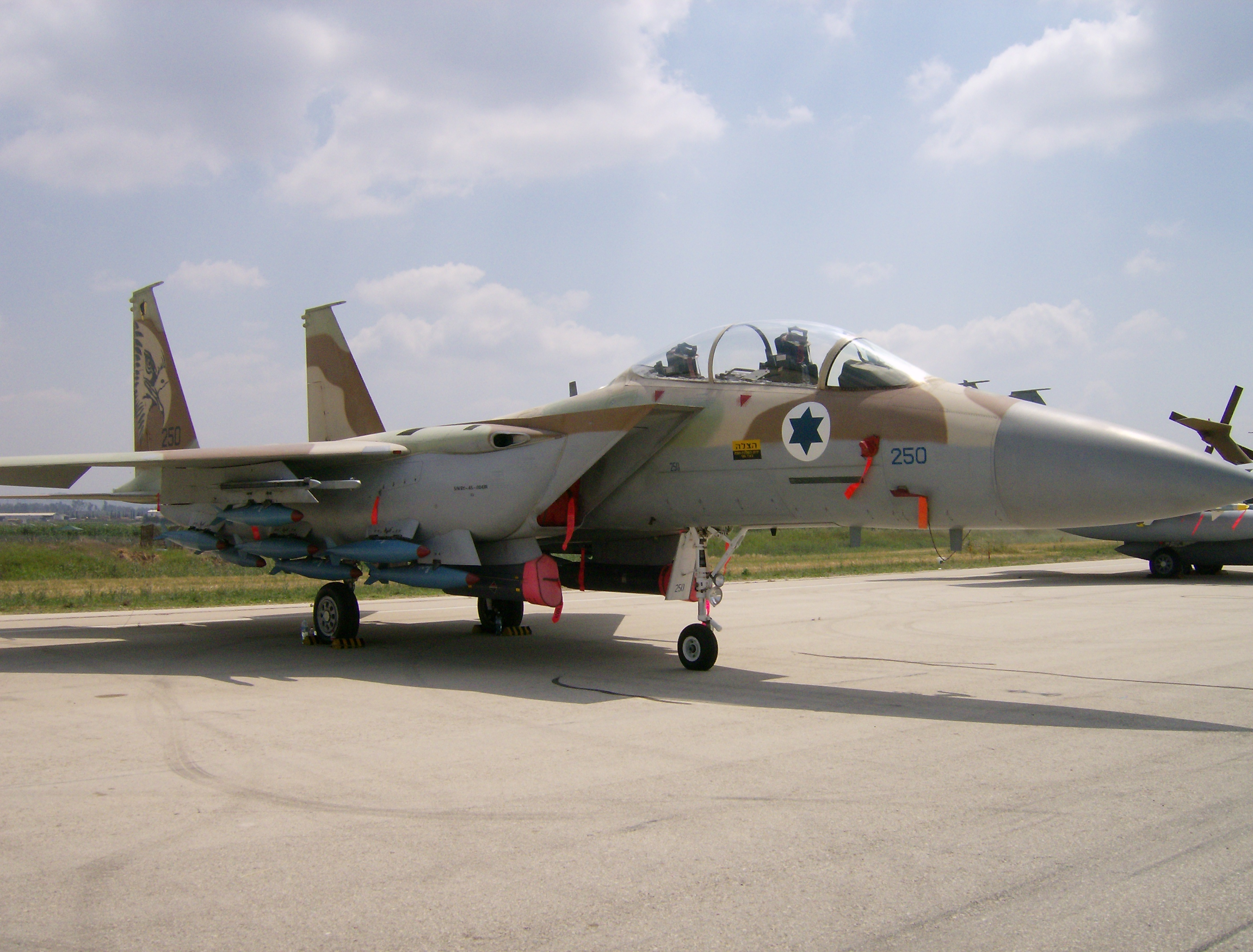 F-15 I, Tel Nof, Israel